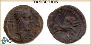 Bronze TASGETIOS, DT :2593.